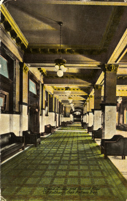 Grand Lobby and Peacock Alley, St. Anthony Hotel, San Antonio, Texas